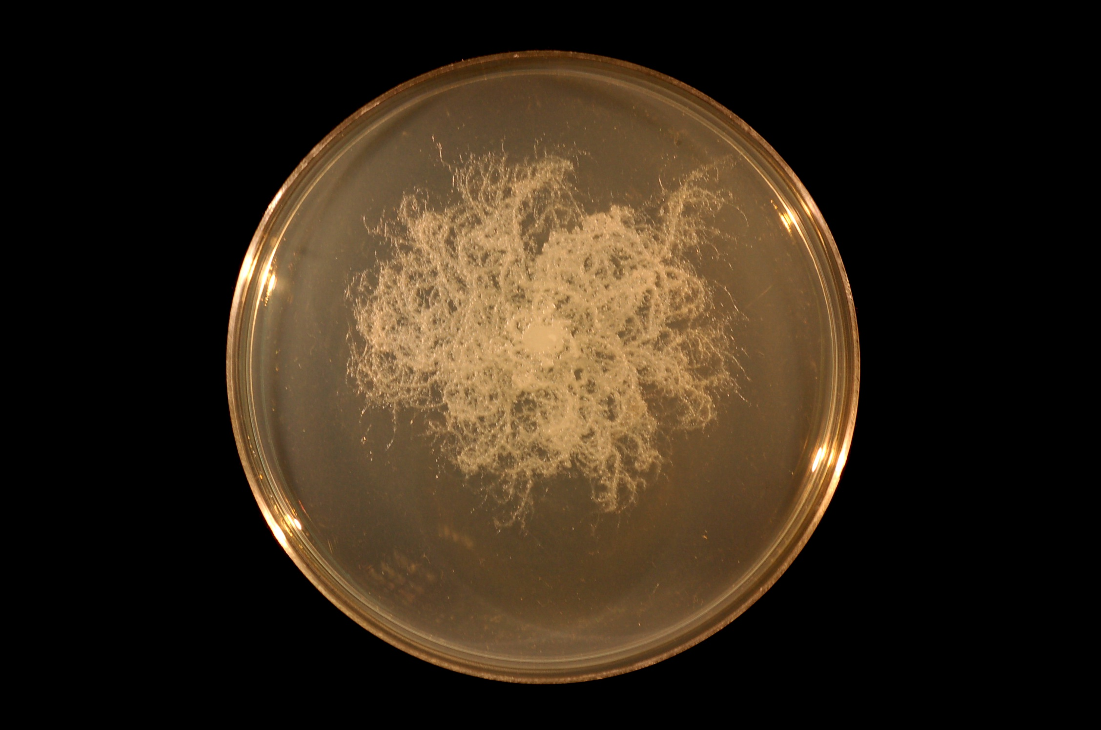 The bacterium Bacillus mycoides streaked to single colonies on Tryptone-Yeast Extract (TY) agar.